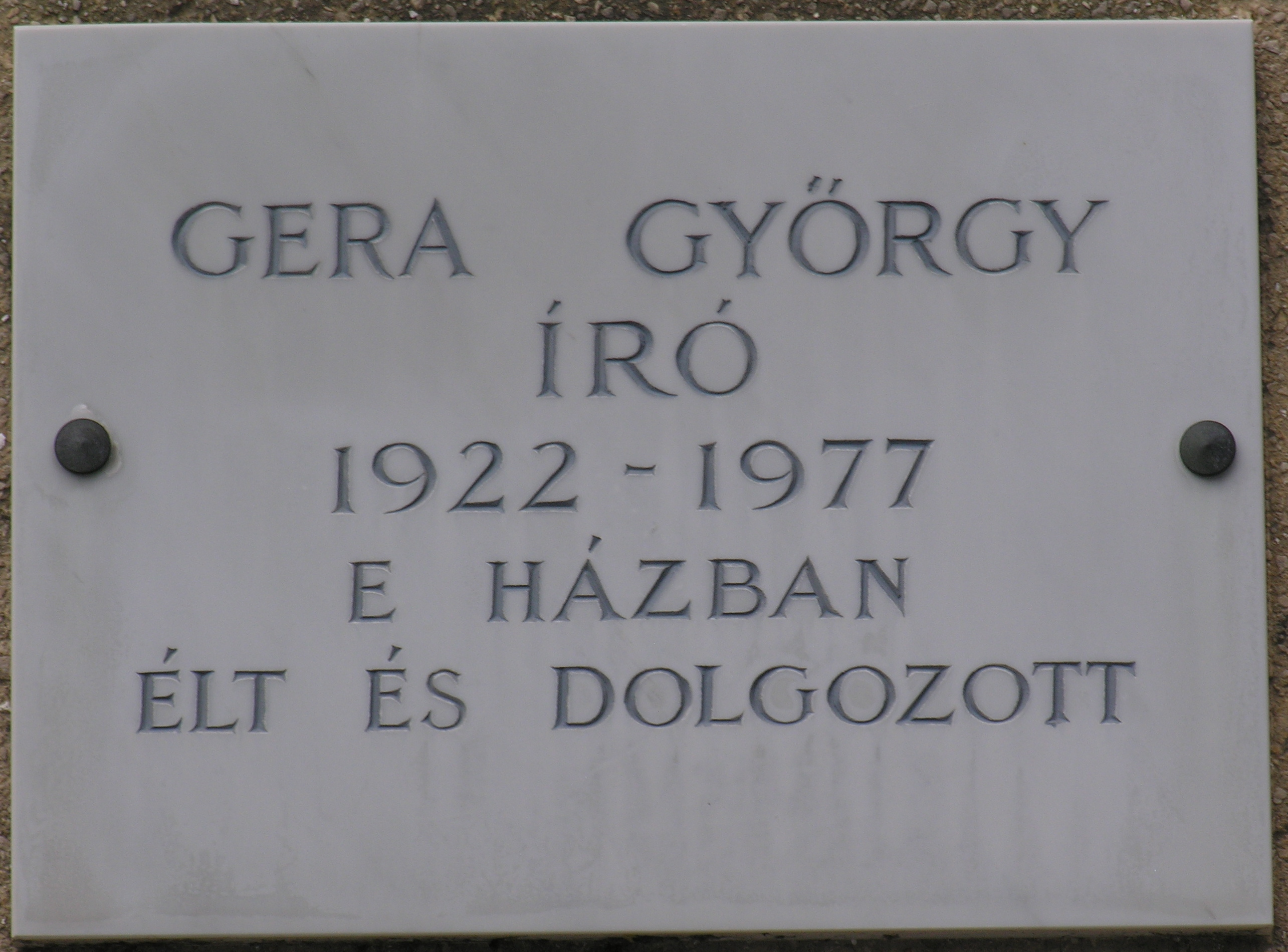 György Gera commemorative plaque in Budapest District XII, Városmajor Street No 78